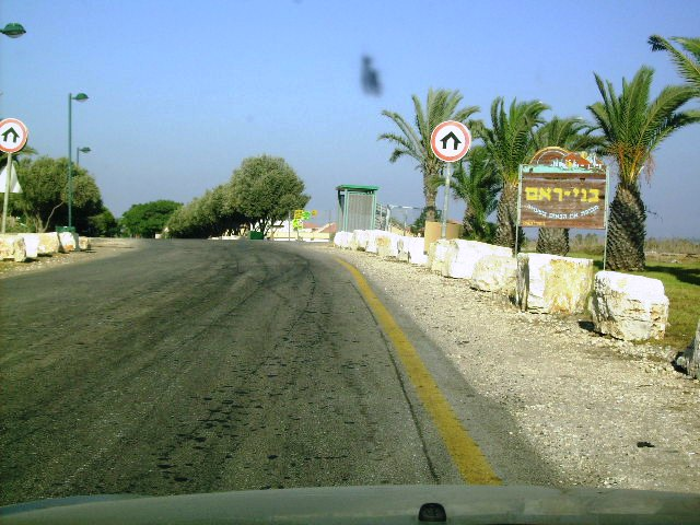 Enterance to Moshav Bnei Re'em, Israel